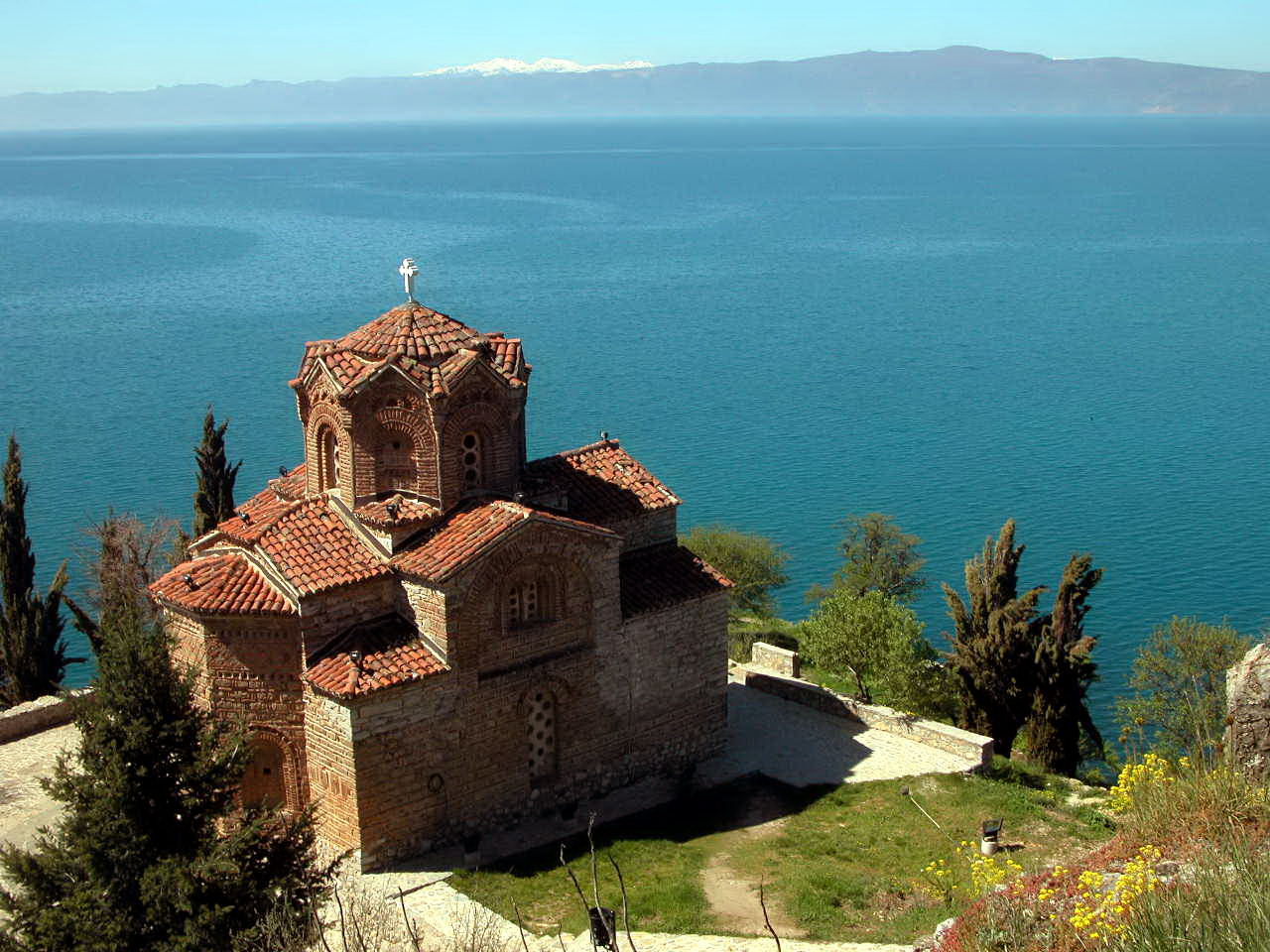 Church of Saint Jovan Kaneo, Ohrid